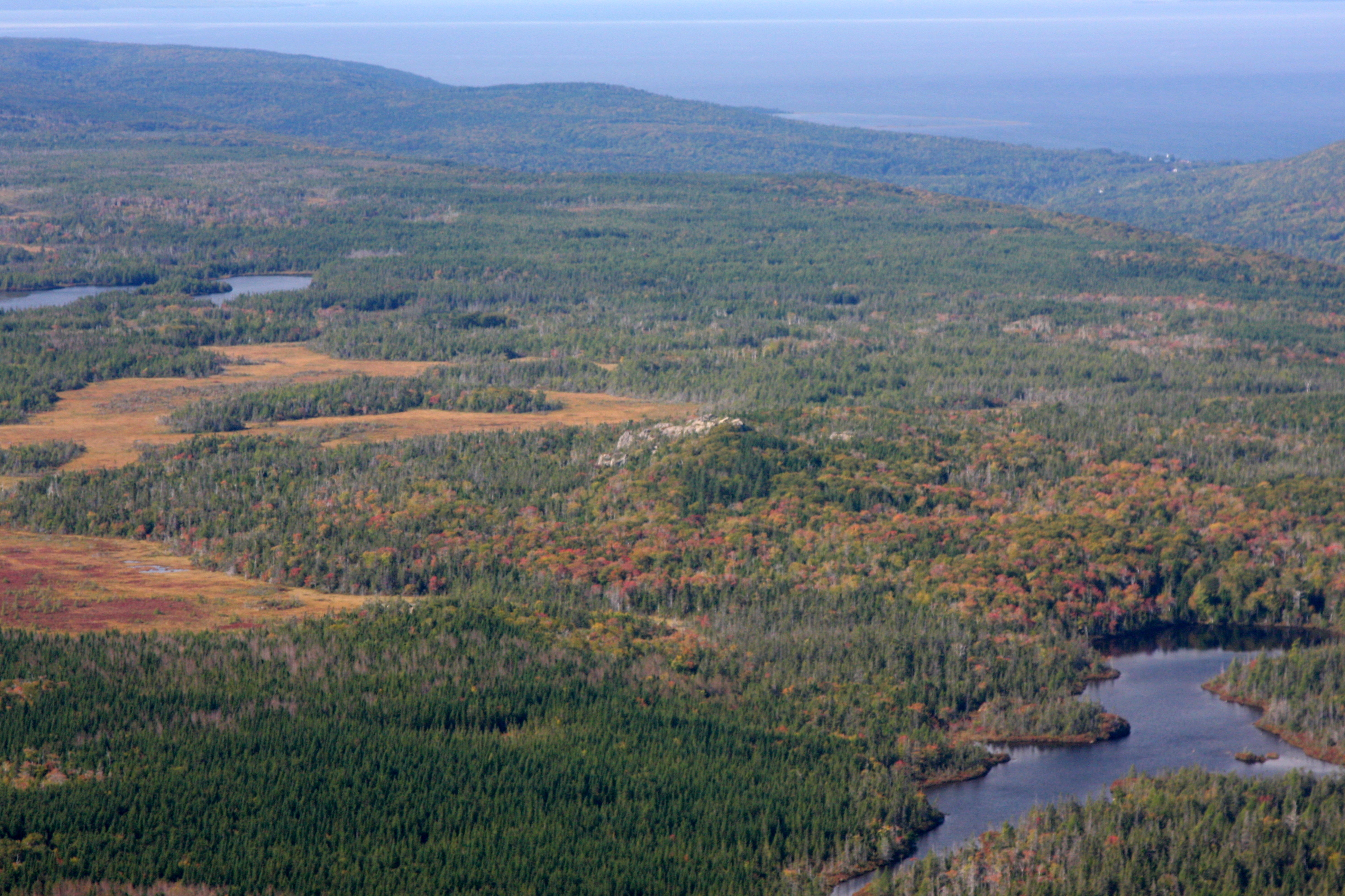 Sgurra Bhreac (alternative spelling 'Sgurra Breac'), sometimes referred to as the Big Rock, is a Canadian peak located in the East Bay Hills of Cape Breton Island, an extension of the Appalachian mountain chain in the province of Nova Scotia. Sgurra Bhreac is a prominent rock outcrop, rising 50 m (160 ft) from the northern edge of The Big Barren, between the Breac Brook and Glengarry Valleys, and is the highest elevation point on Cape Breton Island south of the Bras d'Or Lake with its summit at 222 m (728 ft).